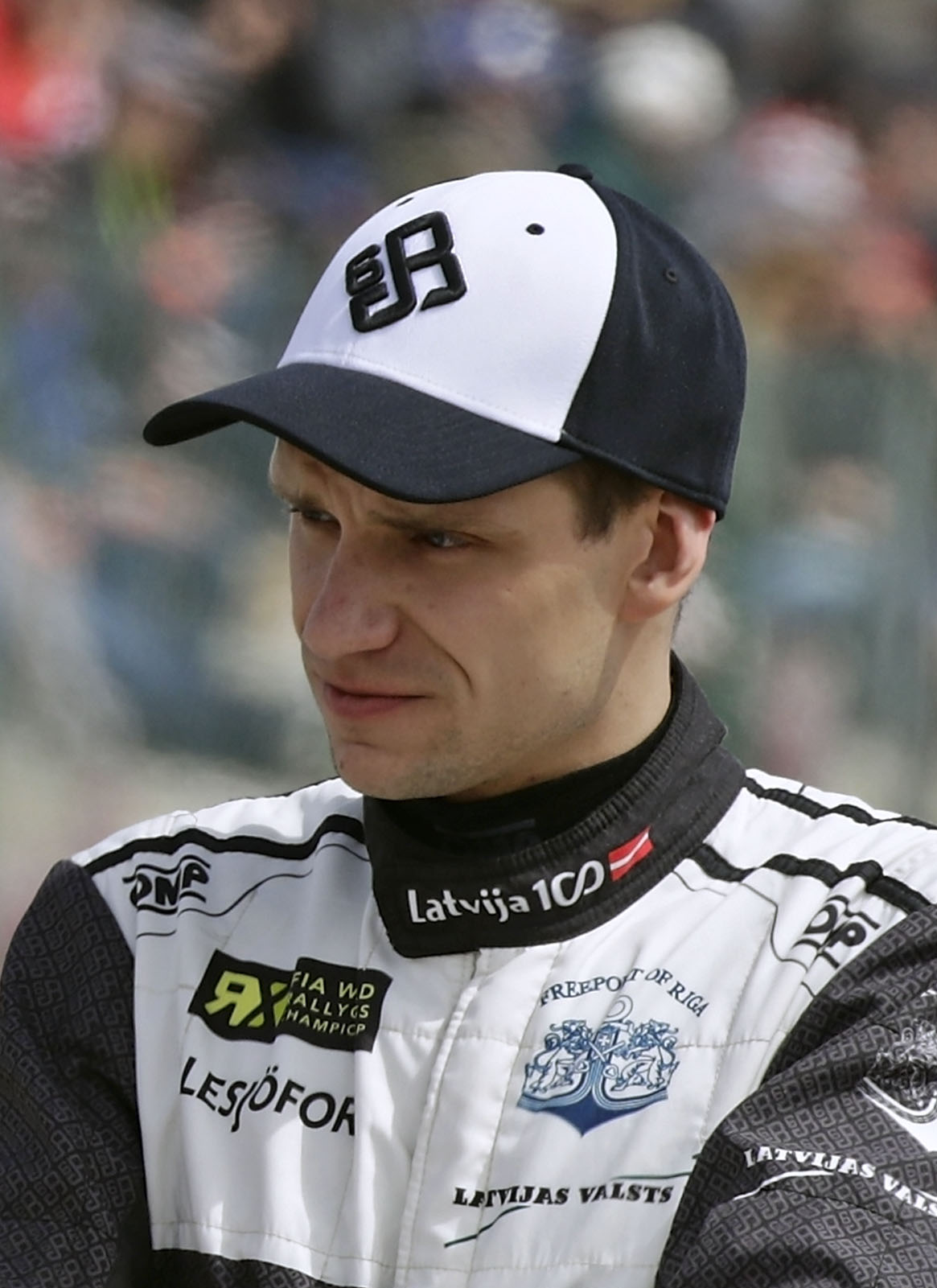 2018 FIA World Rallycross Championship // Round 2, Portugal, Montalegre // Credit: EKS Audi Sport